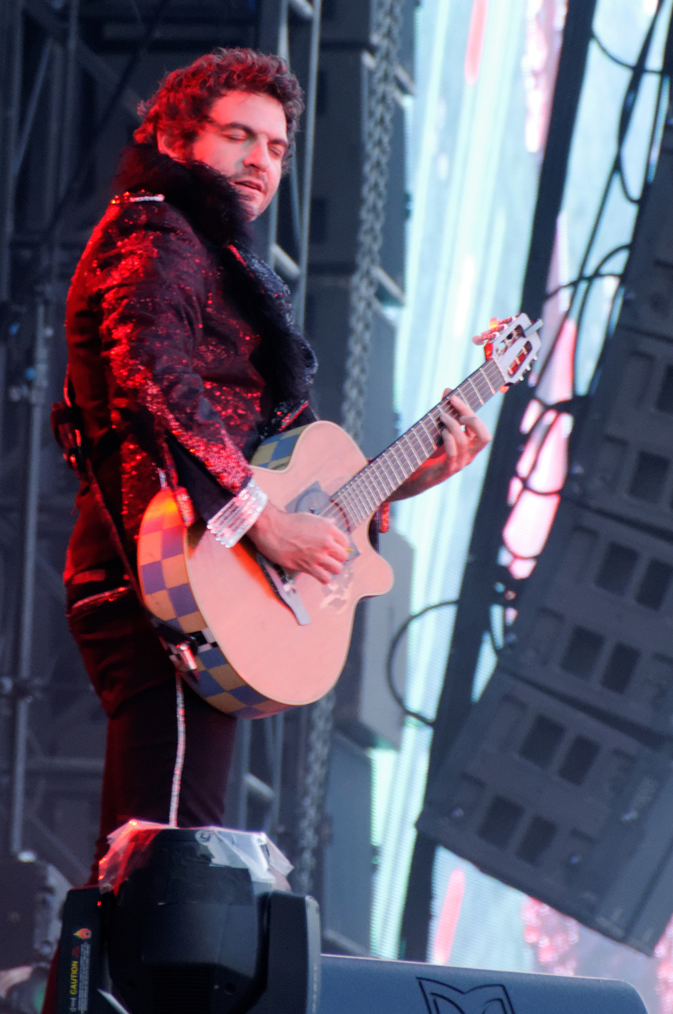 This photograph was taken with a Nikon D300 Personality rights warningAlthough this work is freely licensed or in the public domain, the person(s) shown may have rights that legally restrict certain re-uses unless those depicted consent to such uses. In these cases, a model release or other evidence of consent could protect you from infringement claims.